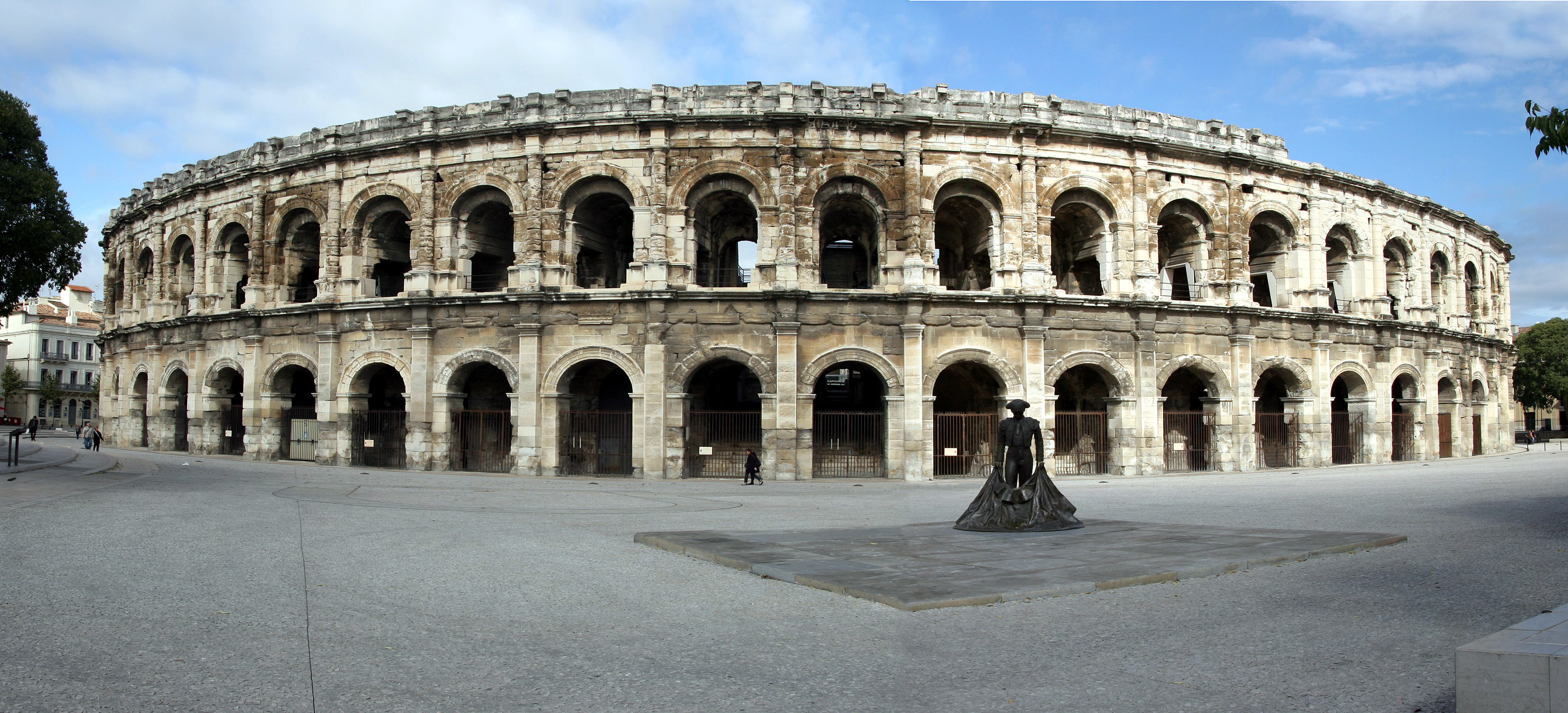 The Amphitheatre of Nîmes (France)